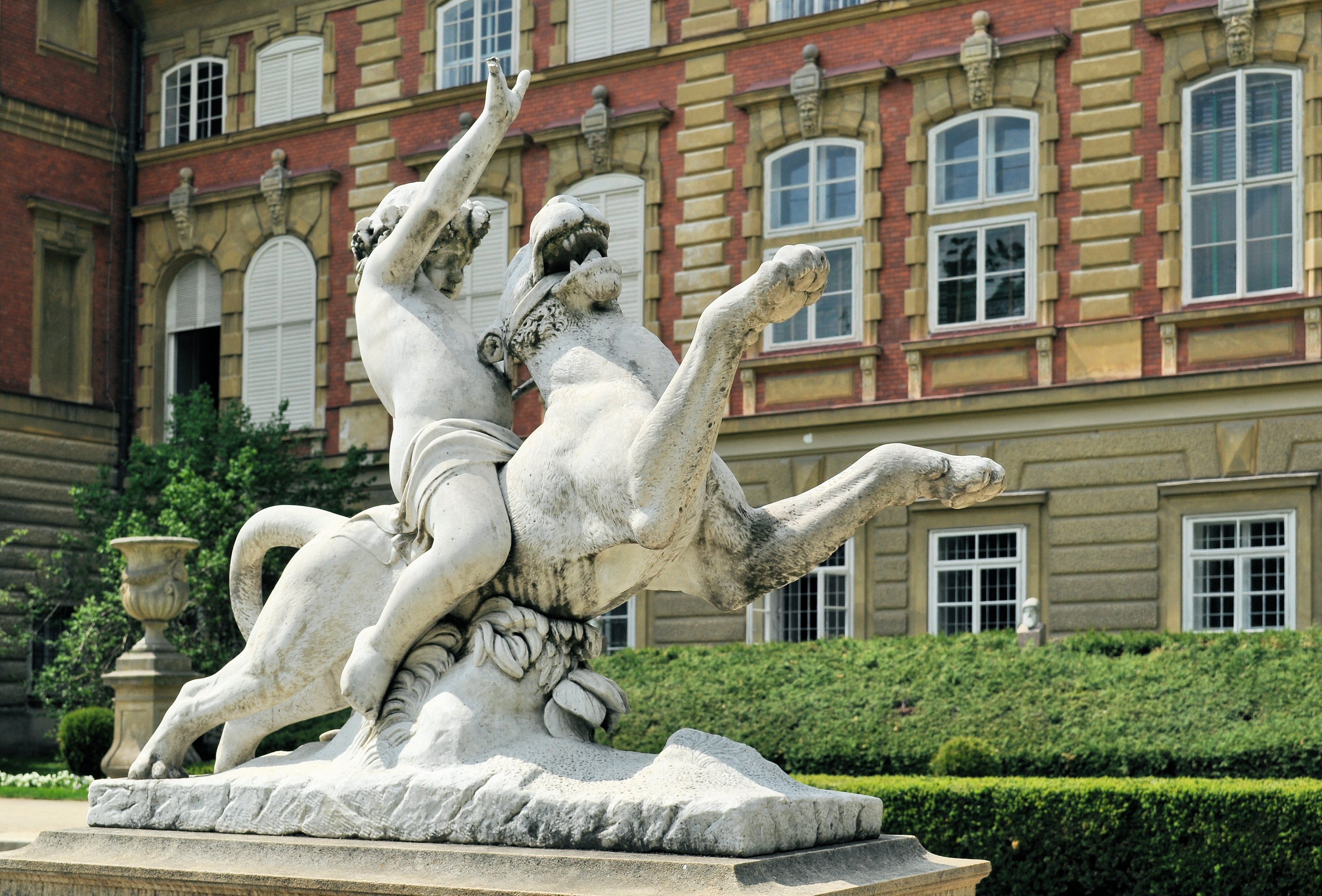 The statue of Bacchus on the panther, Italian garden in castle park, Łańcut.